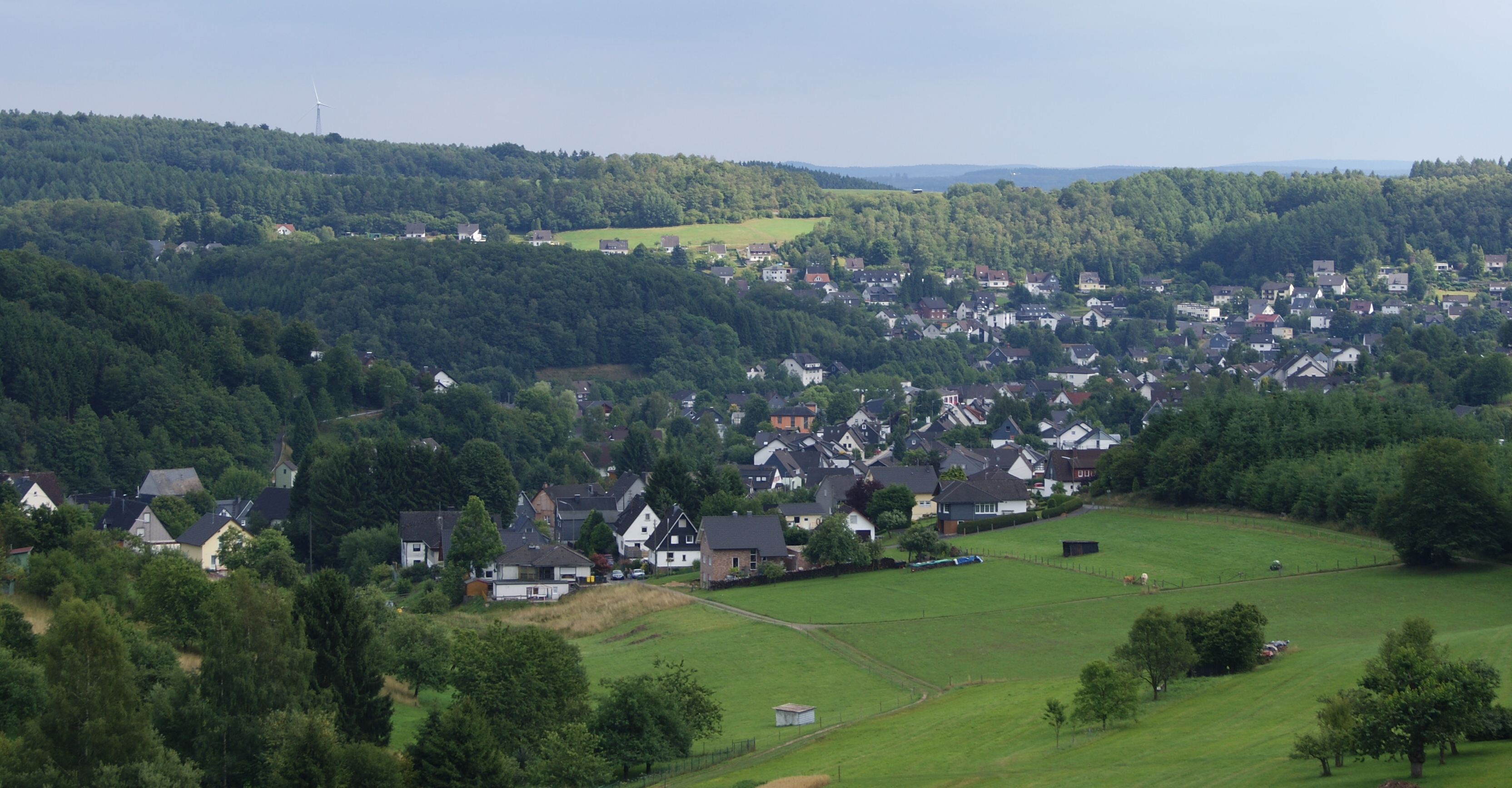 View over Büschergrund, 57258 Freudenberg, Germany.